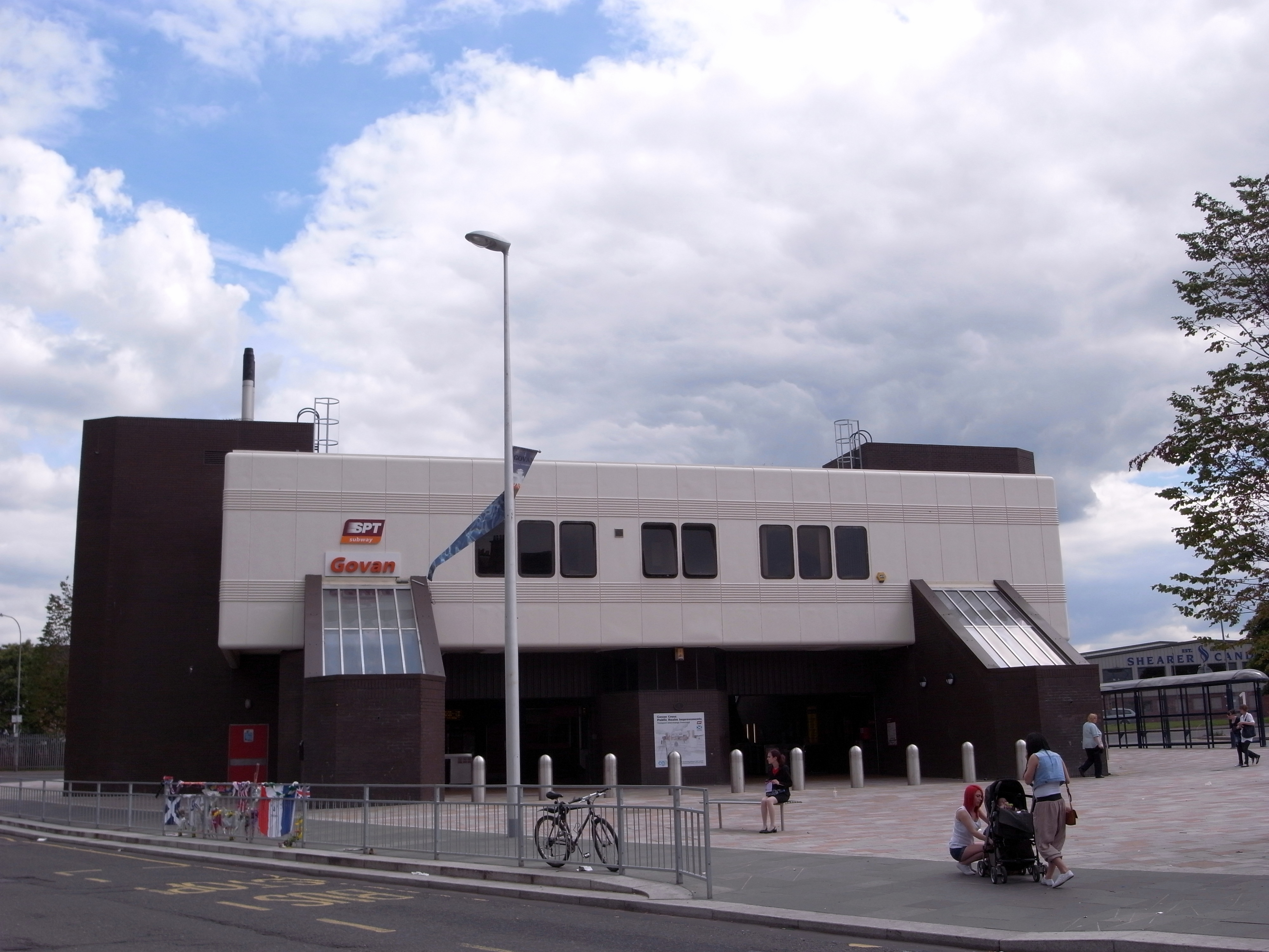 Govan subway station.